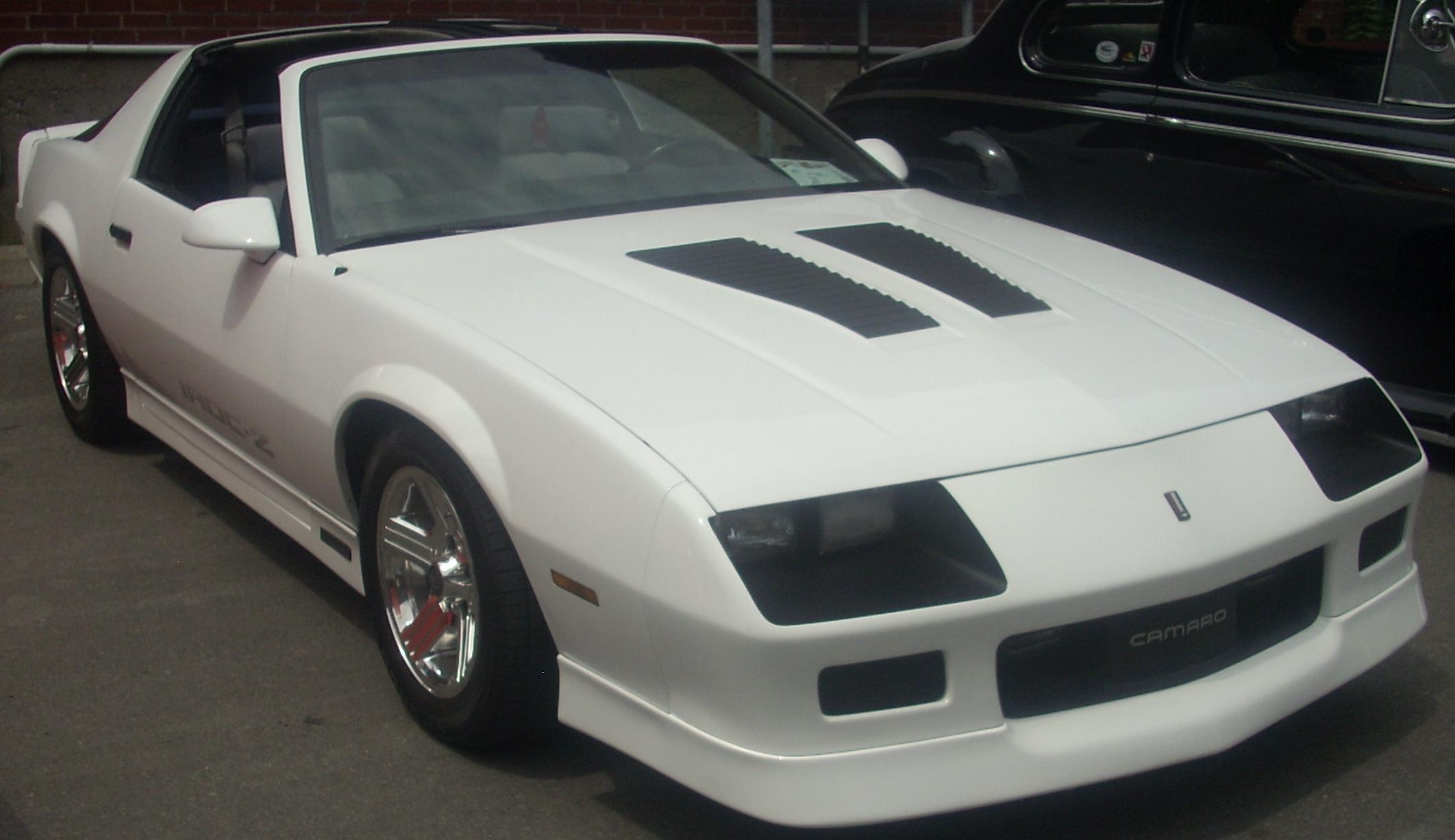 1987 Chevrolet Camaro IROC-Z photographed in Ste. Anne De Bellevue, Quebec, Canada at Cruisin' At The Boardwalk 2010.